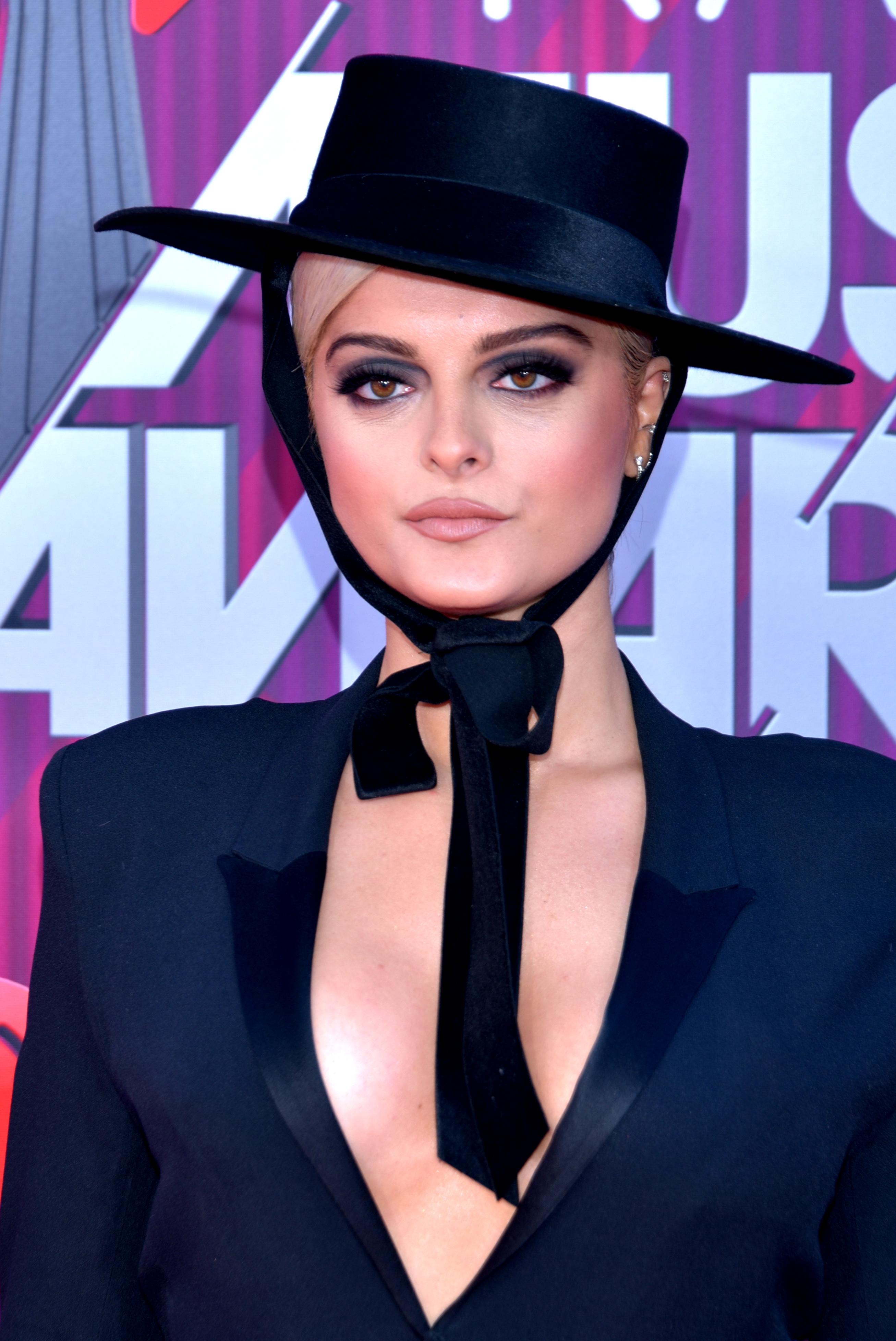 Bebe Rexha at the 2019 iHeartRadio Music Awards in Los Angeles, California on March 14, 2019 - Photo by Glenn Francis of